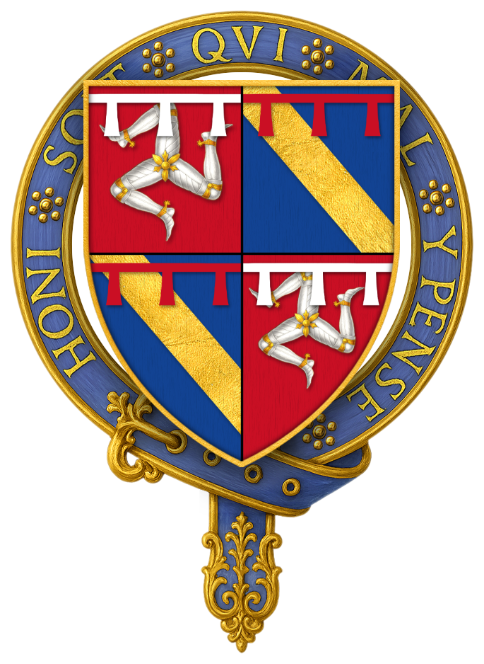 Sir William le Scrope, KG FOX-DAVIES, Arthur Charles, The Art of Heraldry: An Encyclopedia of Armory, London: T. C. & E. C. Jack, 1904. Print. – Chapter XXXI, p. 480: “ Fig. 692.—Arms of William Le Scrope, Earl of Wiltes (d. 1399): Quarterly, 1 and 4, the arms of the Isle of Man, a label argent; 2 and 3, azure, a bend or, a label gules. (From Willement's Roll, sixteenth century.) ”